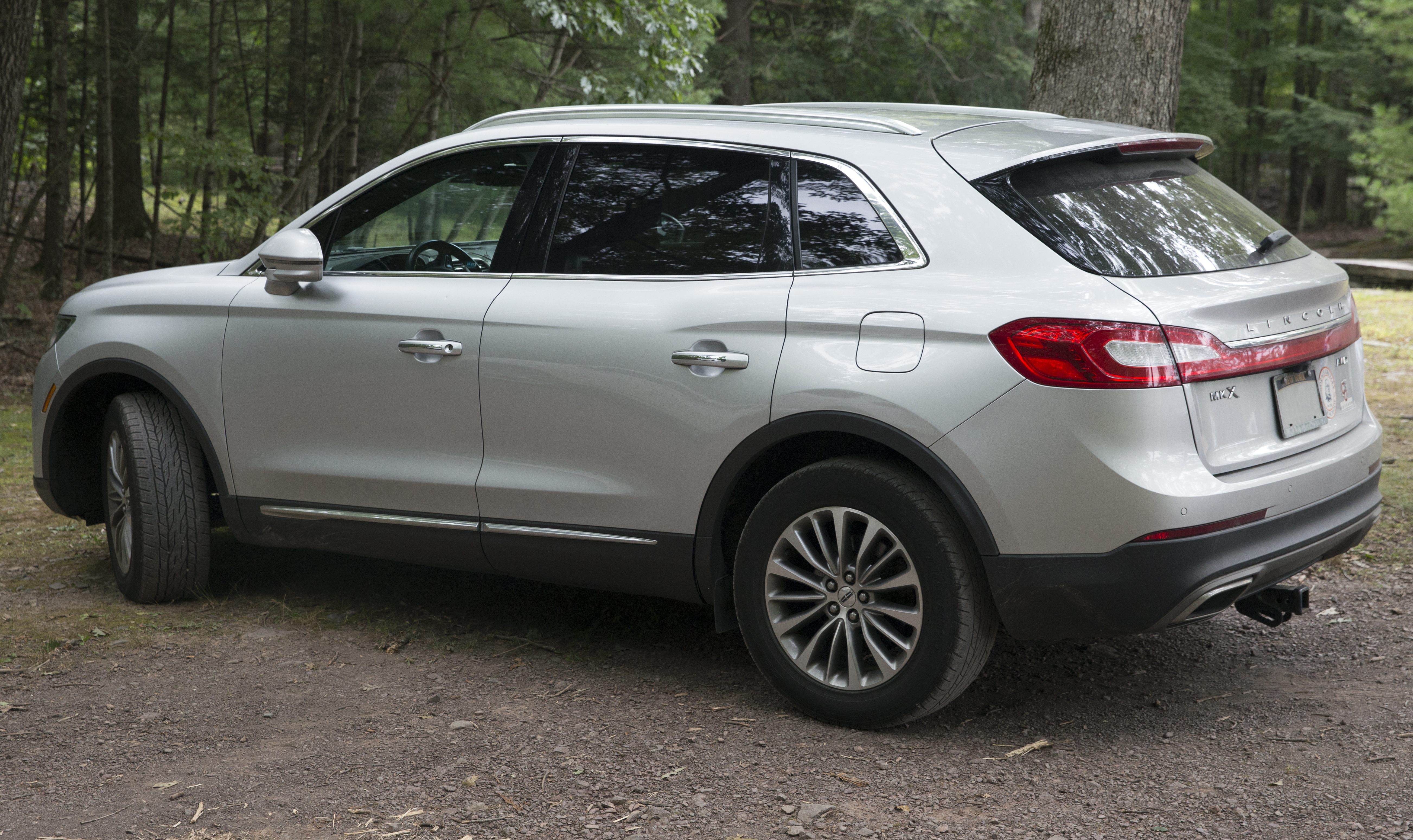 A 2016 Lincoln Mk X (3.7 liters, 305hp, built in Oakville, Ontario). It's nearly offroading, surely a rare occurrence for one of these.